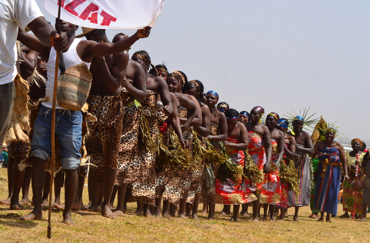 Women cultural troupe march past during Nawhai Festival in Bokkos LGA, of Plateau State. This is an image with the theme "Play" from: Nigeria